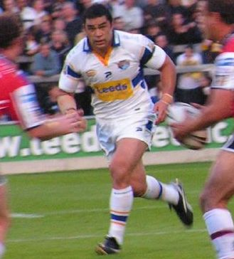 Kylie L